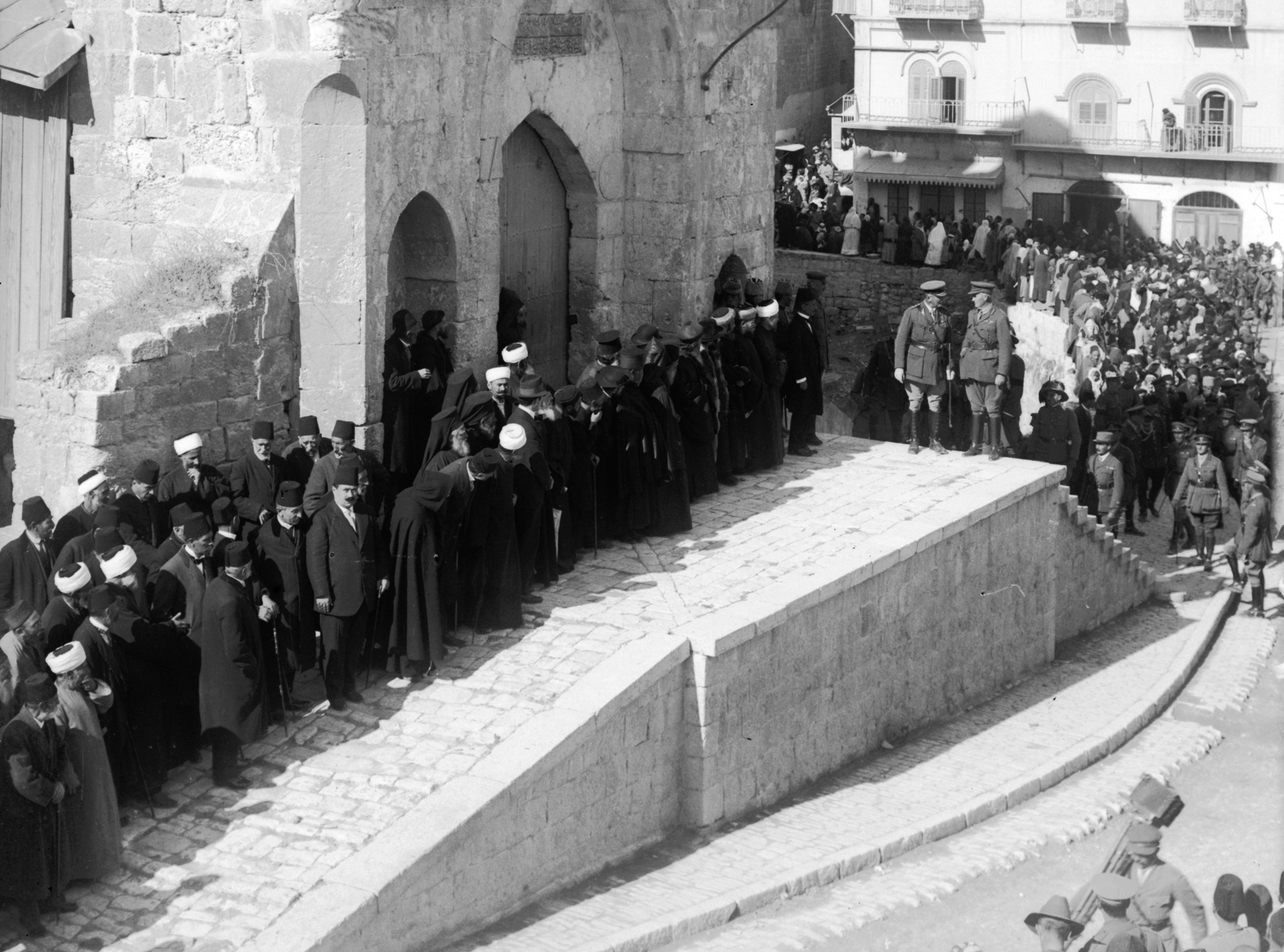 Entry of Field Marshall Allenby, Jerusalem, December 11th, 1917. Field Marshall Allenby and Borton Pasha at Citadel